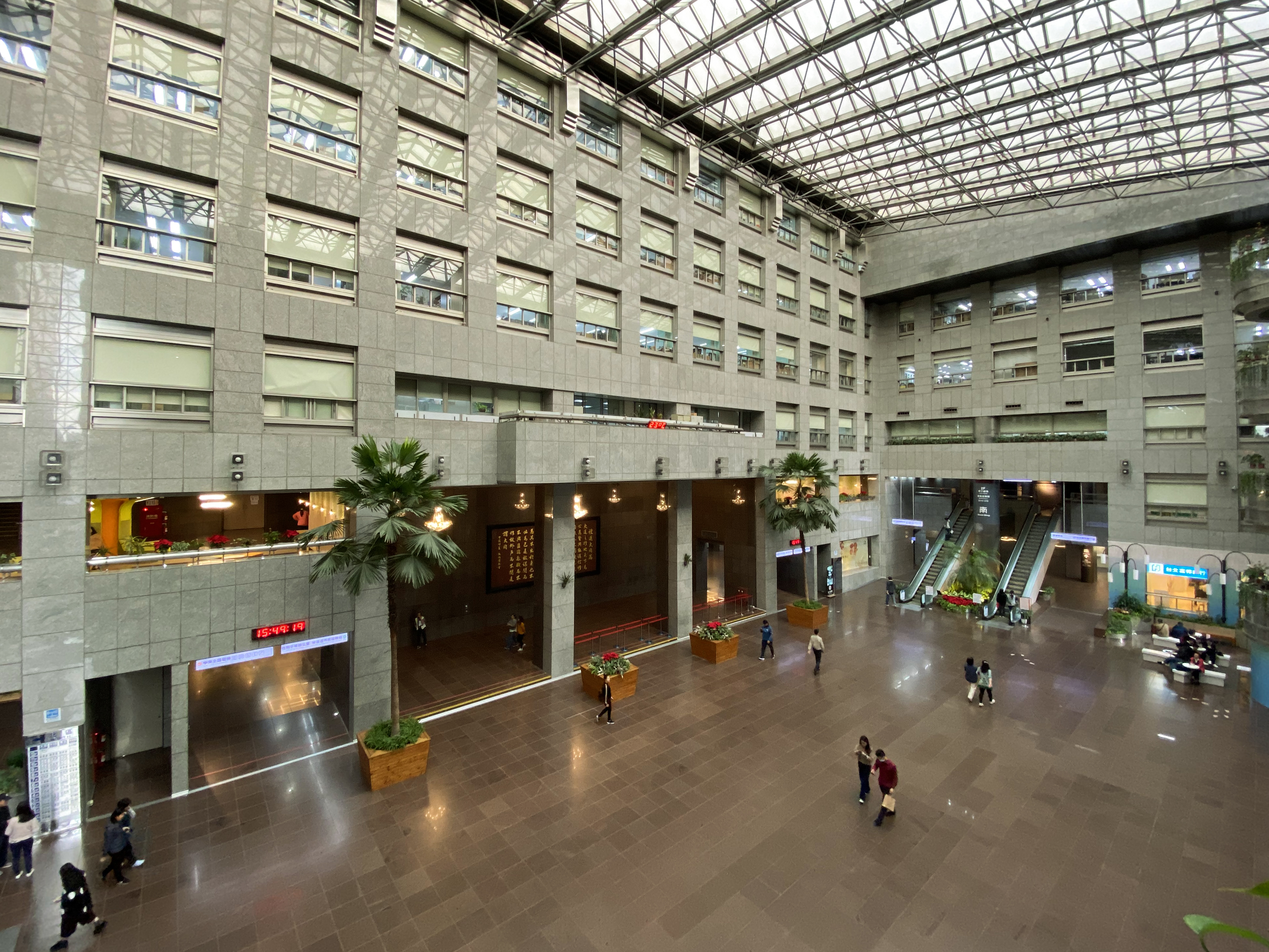 Taipei City Hall Atrium